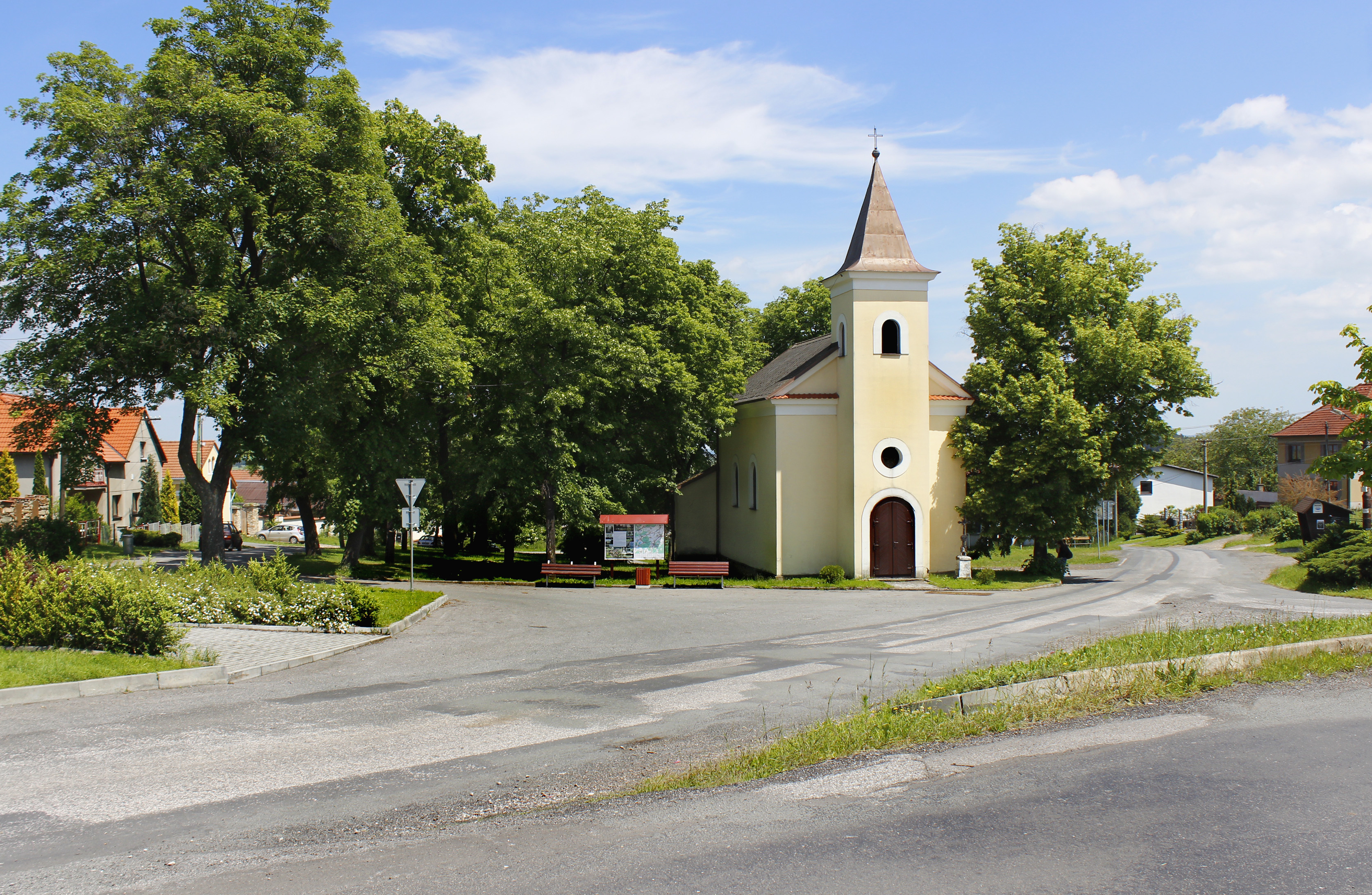 Small chapel in Újezd, Beroun District, Czech Republic